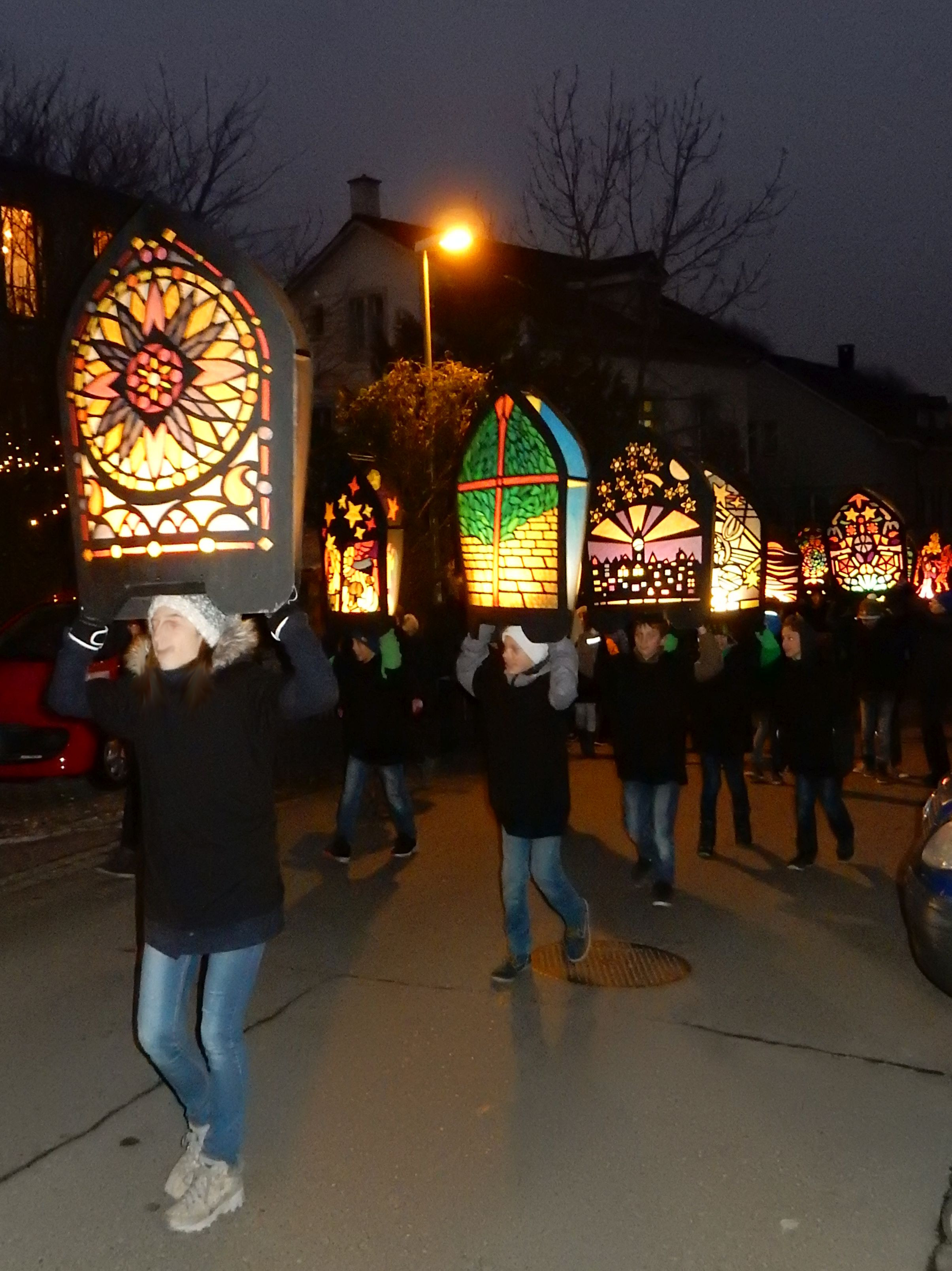 Kinder tragen die beleuchteten Yffeln auf dem Kopf.